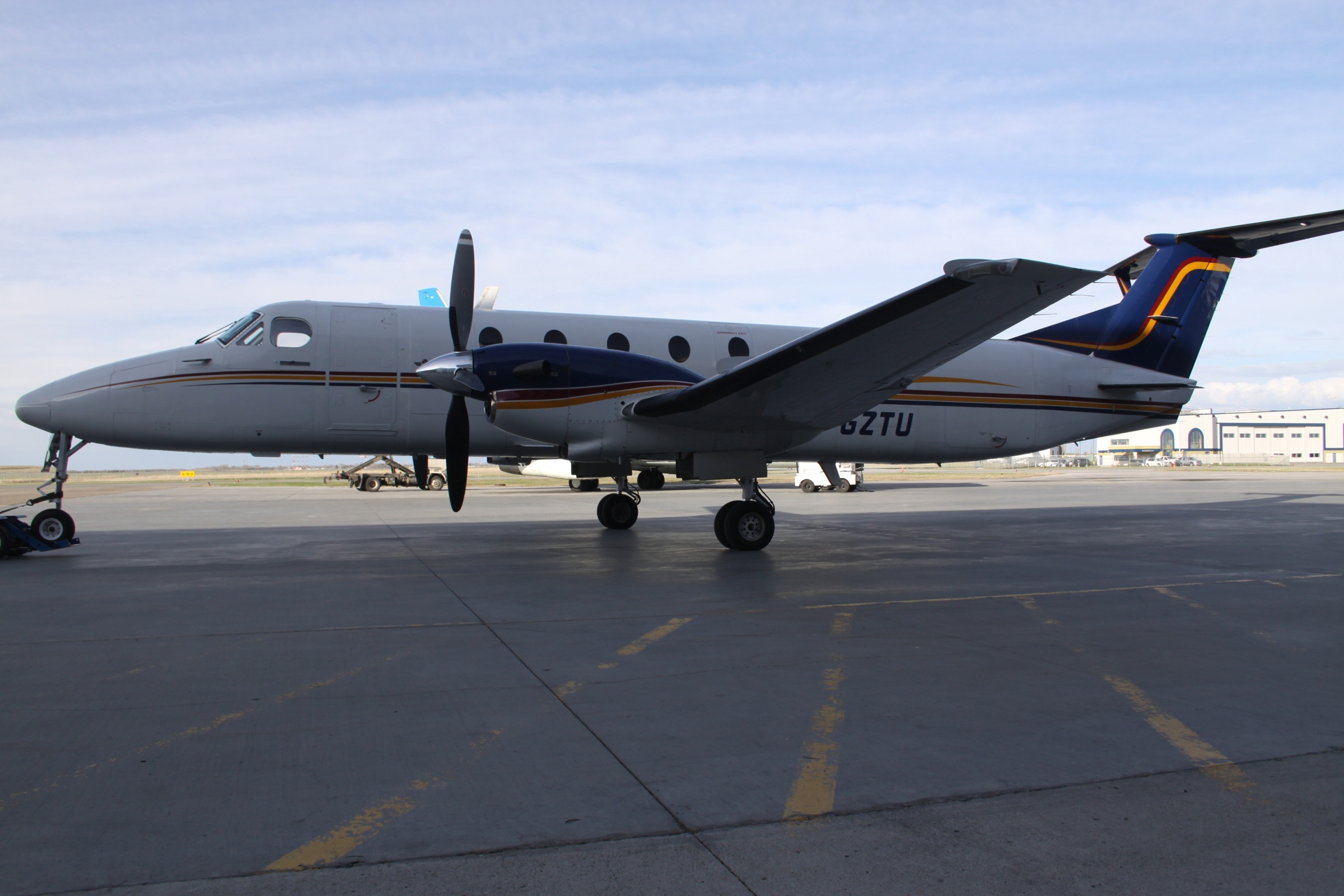 At Calgary International